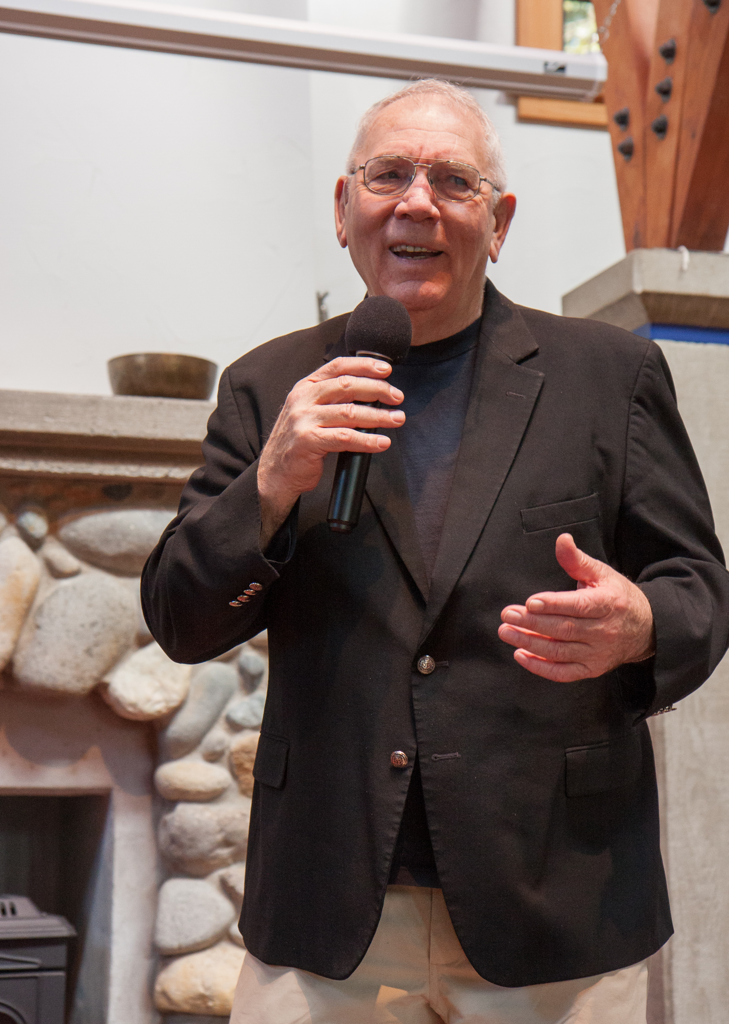 Howard Lyman speaks at the Intersectional Justice Conference at the Whidbey Institute.